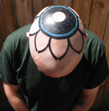 Head tattooAgain, artwork original and mine, subject unidentifiable.